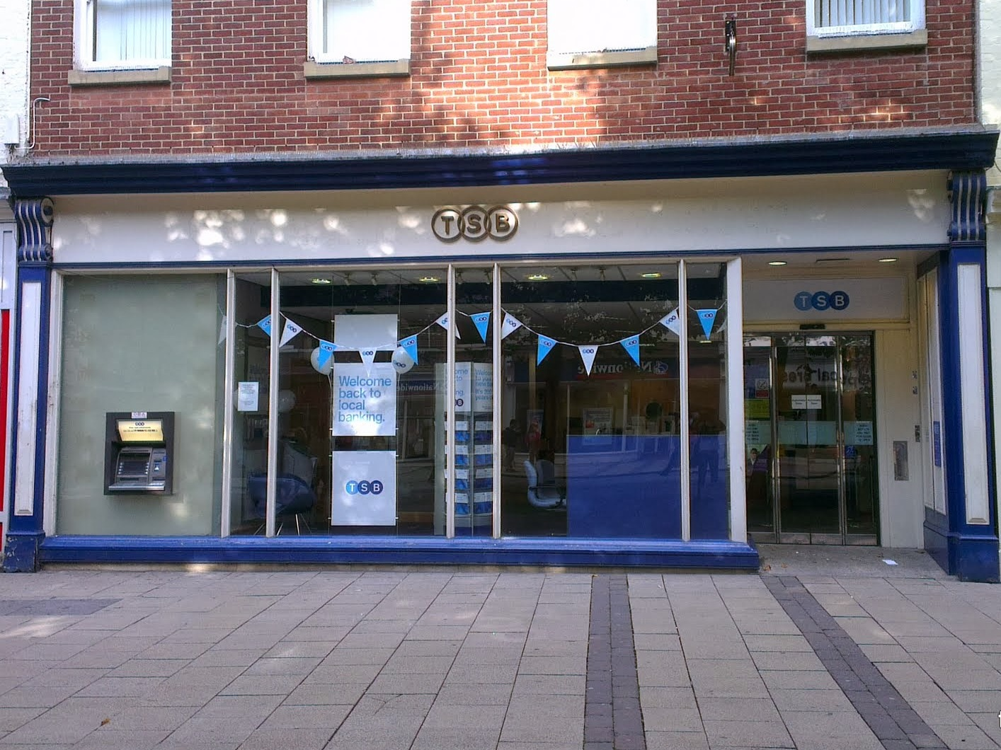 Frontage of TSB branch in Parliament Street, York, following TSB brand reveal